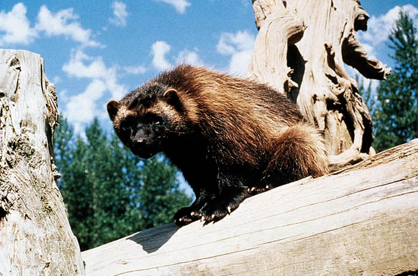 Wolverine, Snoqualmie Pass-Interstate 90 corridor, east of Seattle.